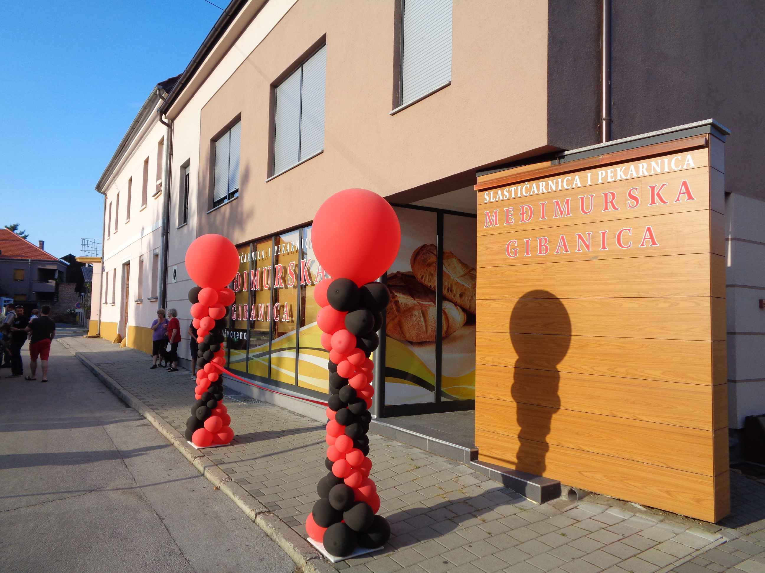 "Medjimurska gibanica" cake shop, Čakovec, Croatia - entrance